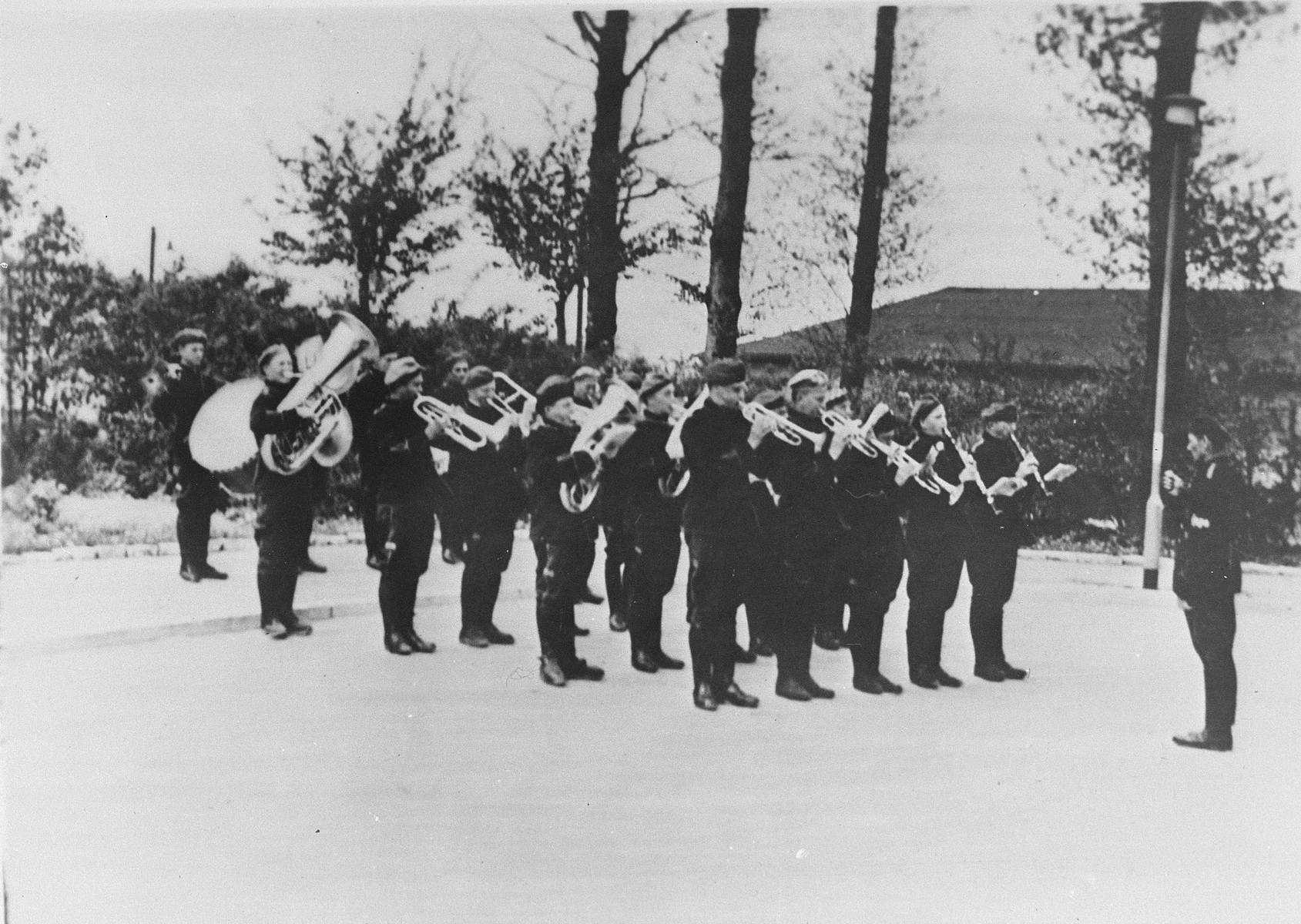 The prisoners' orchestra in Buchenwald concentration camp.